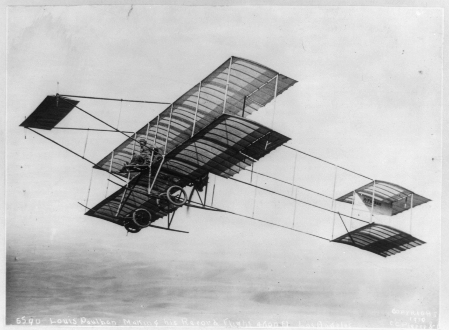 Title: Louis Paulham making his record flight 4600[sic] ft., Los Angeles Abstract/medium: 1 photographic print.